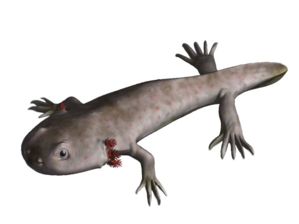 Branchiosaurus sp., Temnospondyly from the Early Permian. Digital.